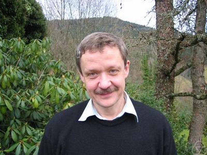 Yurii Nesterov, Oberwolfach 2005